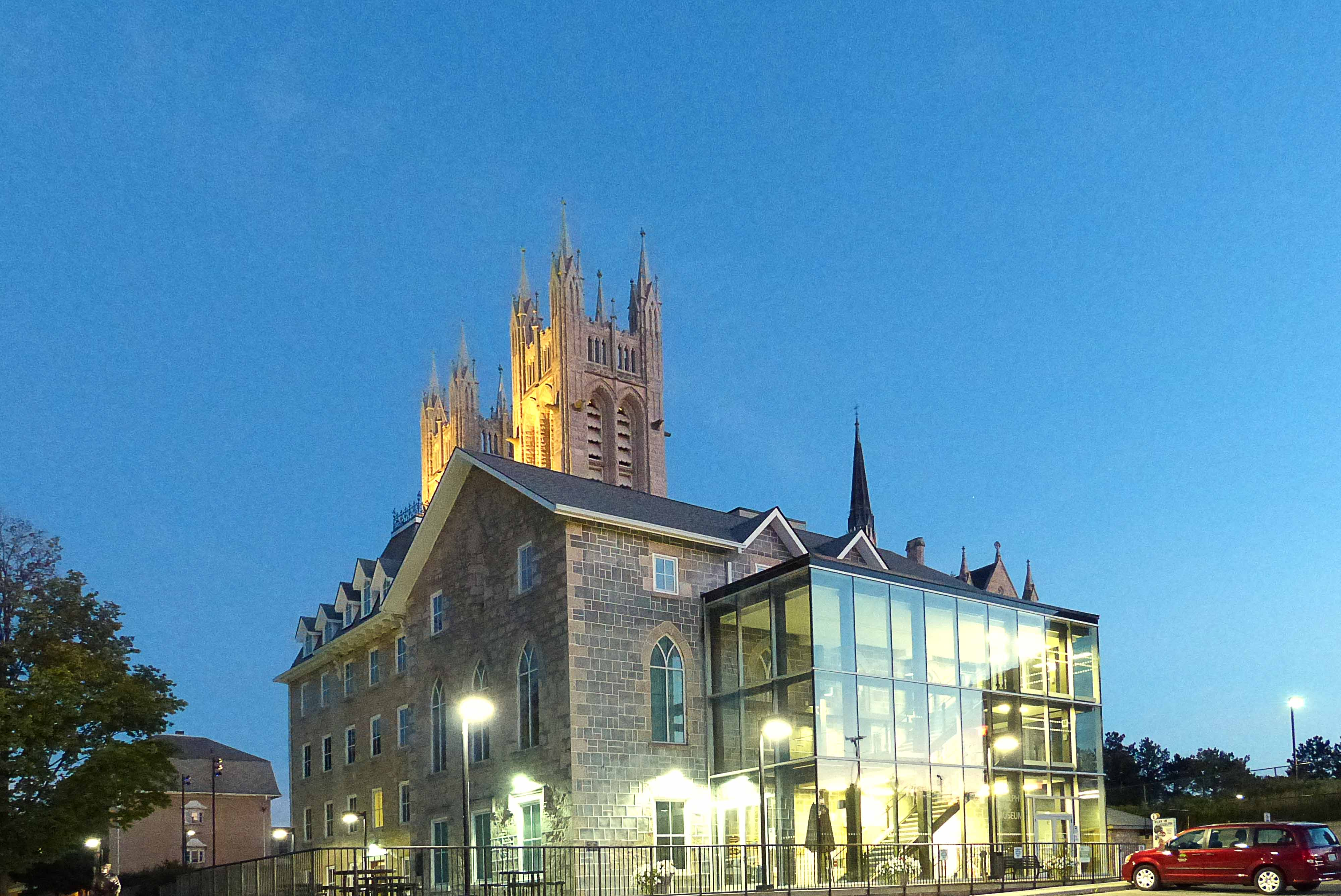 The Guelph Civic Museum, 52 Norfolk St., Guelph, Ontario, Canada, at dusk in August 2016. The twin spires of the Basilica of Our Lady tower over the roof of the museum, which at one time was a Loretto convent.